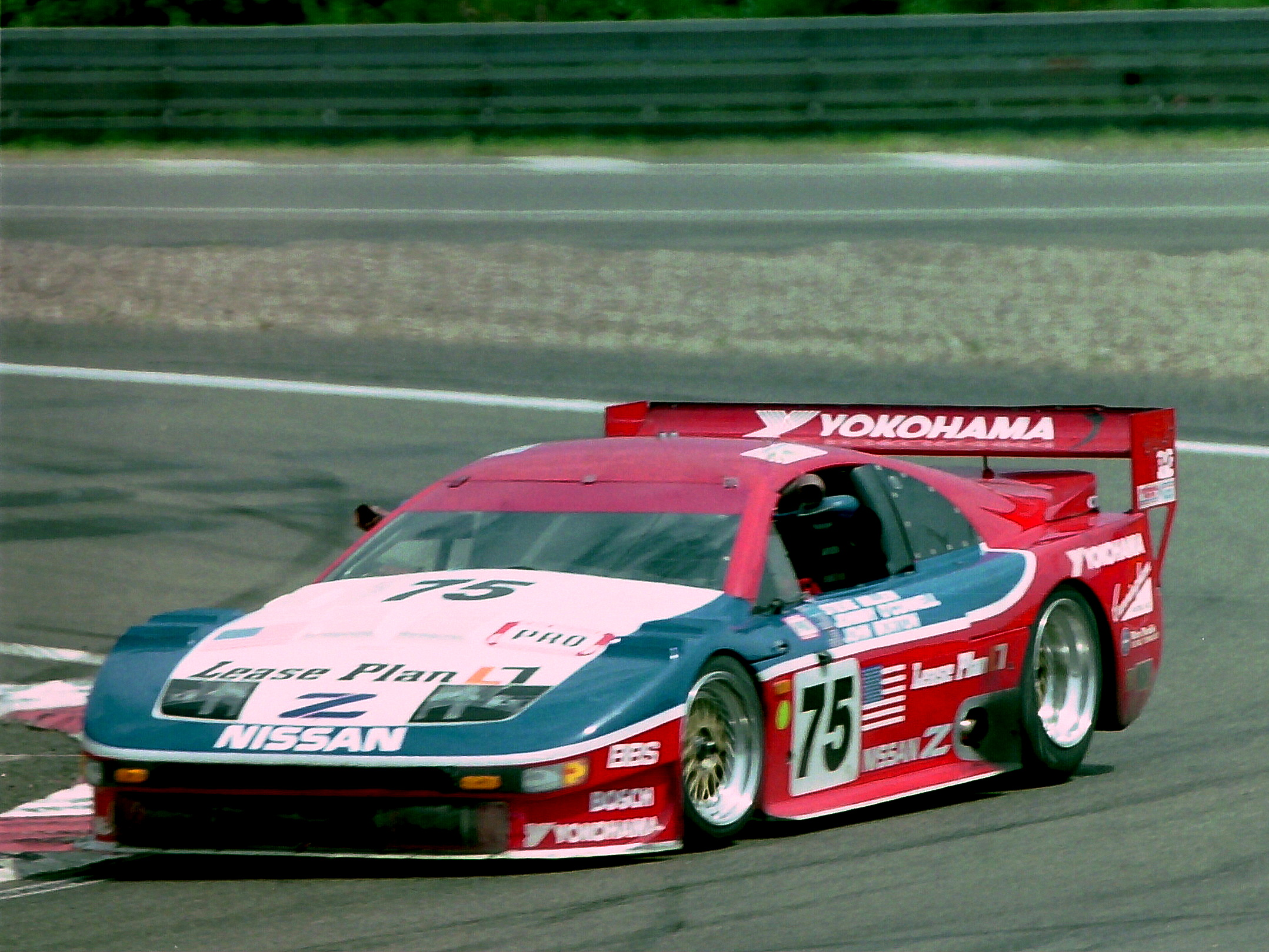 Nissan 300ZX Turbo - Steve Millen, Johnny O`Connell & John Morton at Mulsanne Corner at the 1994 Le Mans